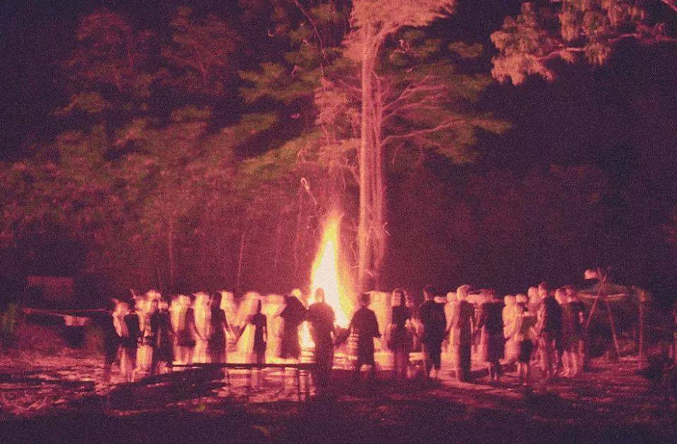 Rainbow Family Gathering of the Tribes, Borneo, Indonesia. Fullmoon Circle